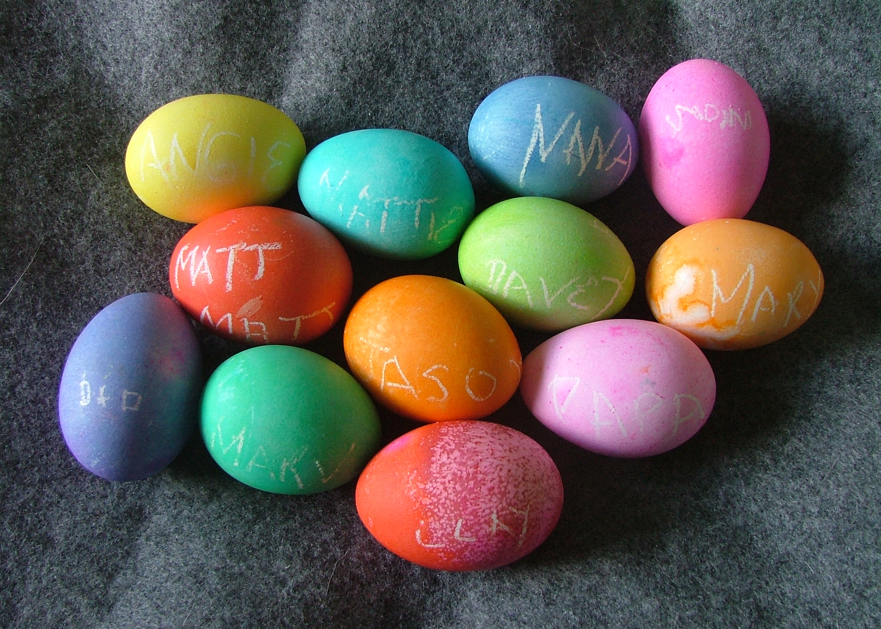 A photograph of Easter eggsen in the U.S.A.